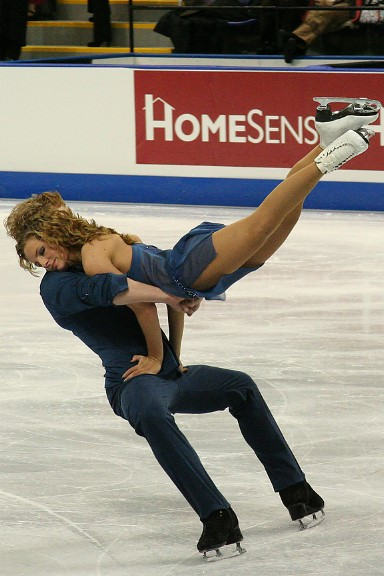 Trina Pratt & Todd Gilles perform a lift at the 2006 Skate Canada International.